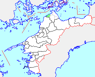 Map of Kikuma, Ehime, Japan.